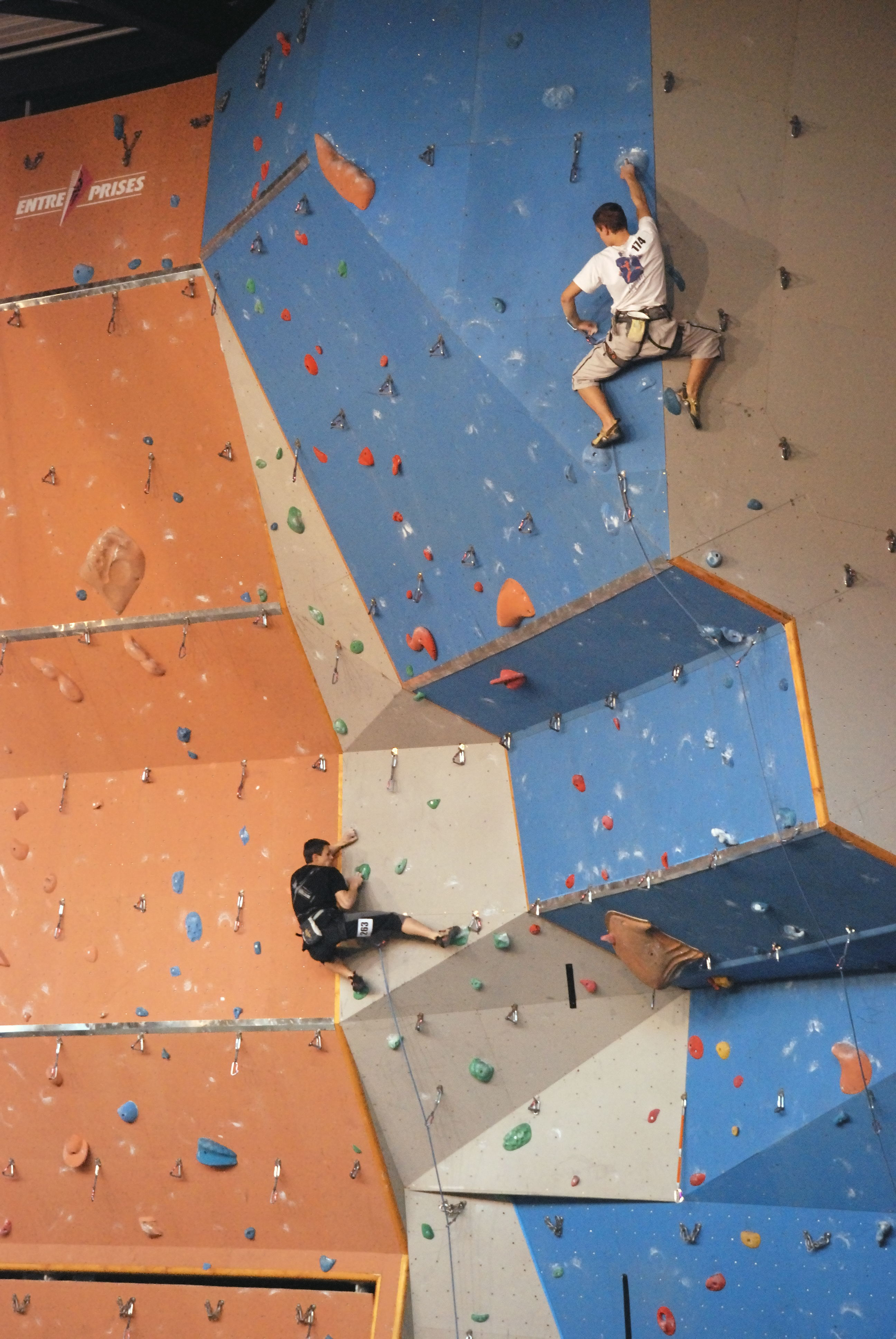 Rock climbing on the wall of Voiron, Auvergne Rhône-Alpes championship (Isère, France).